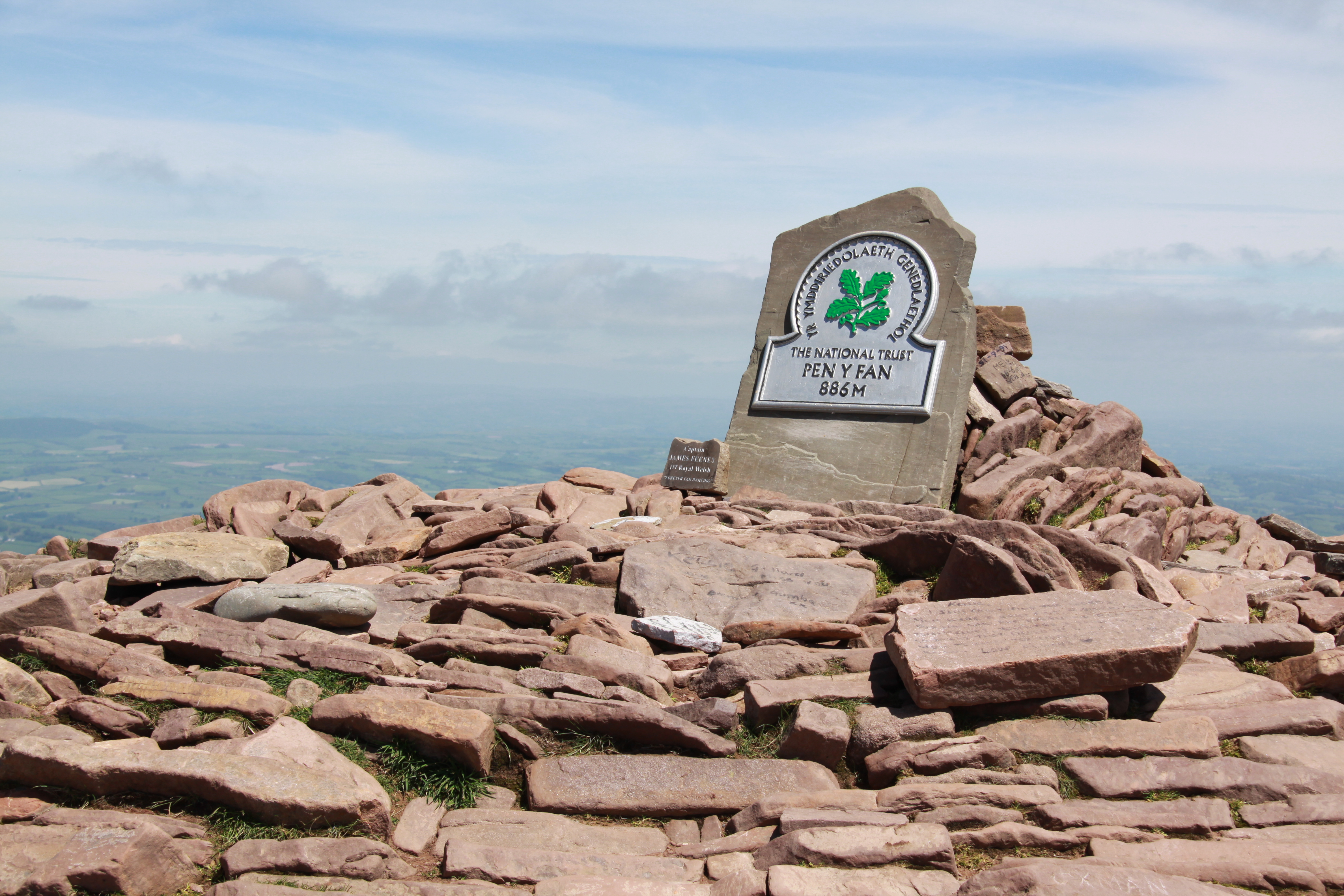 Summit of Pen-Y-Fan, Brecon Beacons, Wales